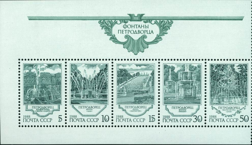 A USSR stamp, Petrodvorets Fountains. Date of issue: 25th December 1988. Designer: A. Pletnev. Michel catalogue number: 5906-5910Zd. 5 K. deep blue-green and pale greenish-grey. Great Cascade (1715-1723, A. Leblon, I. Braunshtein, N. Michetti, M. Zemtsov); Samson Fountain (1802, M. Kozlovsky) on the background of Big Palace (1714). 10 K. deep blue-green and pale greenish-grey. Adam fountain (D. Bonazza). 15 K. deep blue-green and pale greenish-grey. Golden Mountain cascade (Niccolo Michetti and M. Zemtsov). 30 K. deep blue-green and pale greenish-grey. Roman Fountains (Bartalomeo Rastrelli) 50 K. deep blue-green and pale greenish-grey. Oaklet trick fountain (Rastrelli). Miniature Sheet Klb.5906-5910